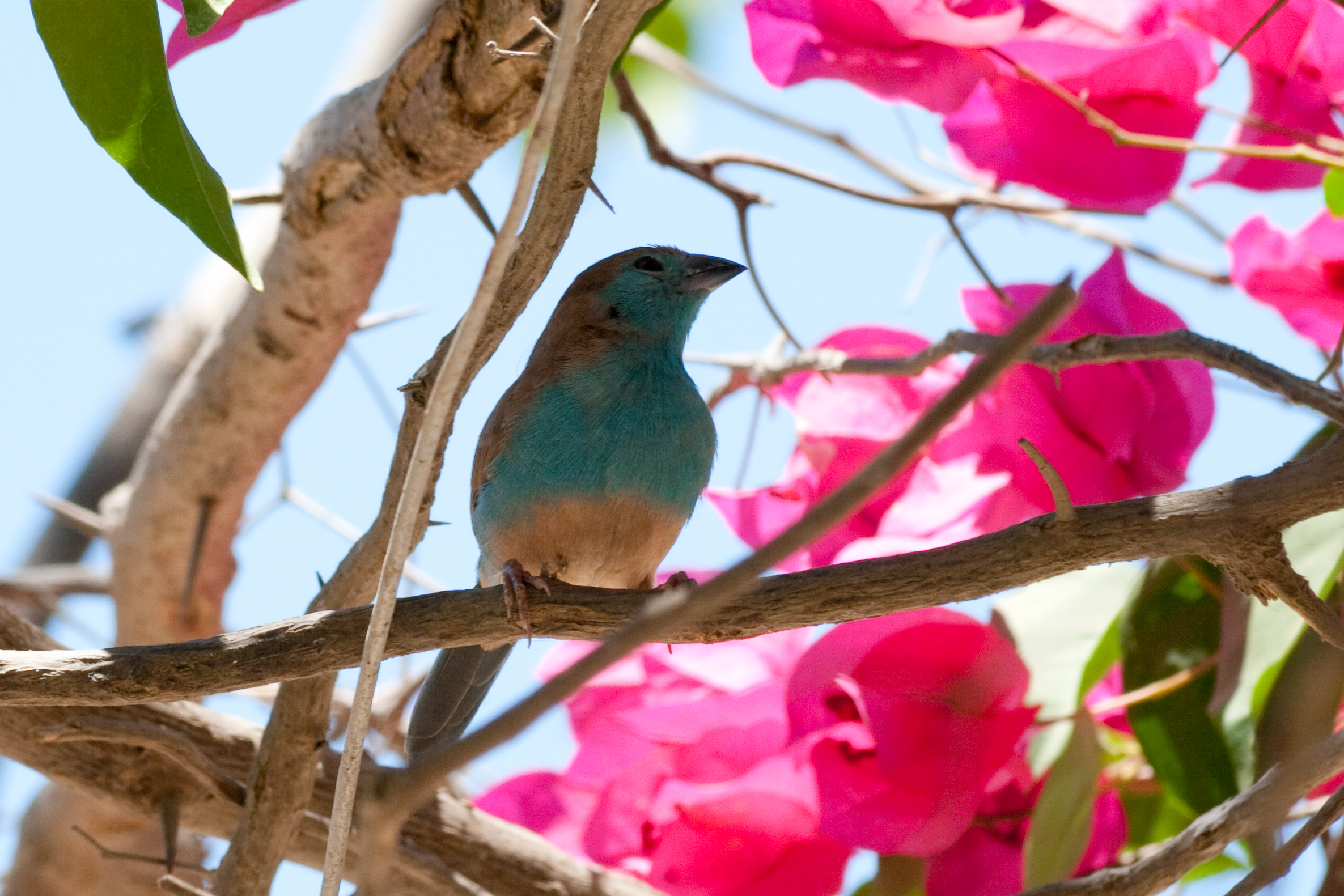 A Blue-breasted Cordon-bleu on Island of Mozambique, Nampula Province, Mozambique.